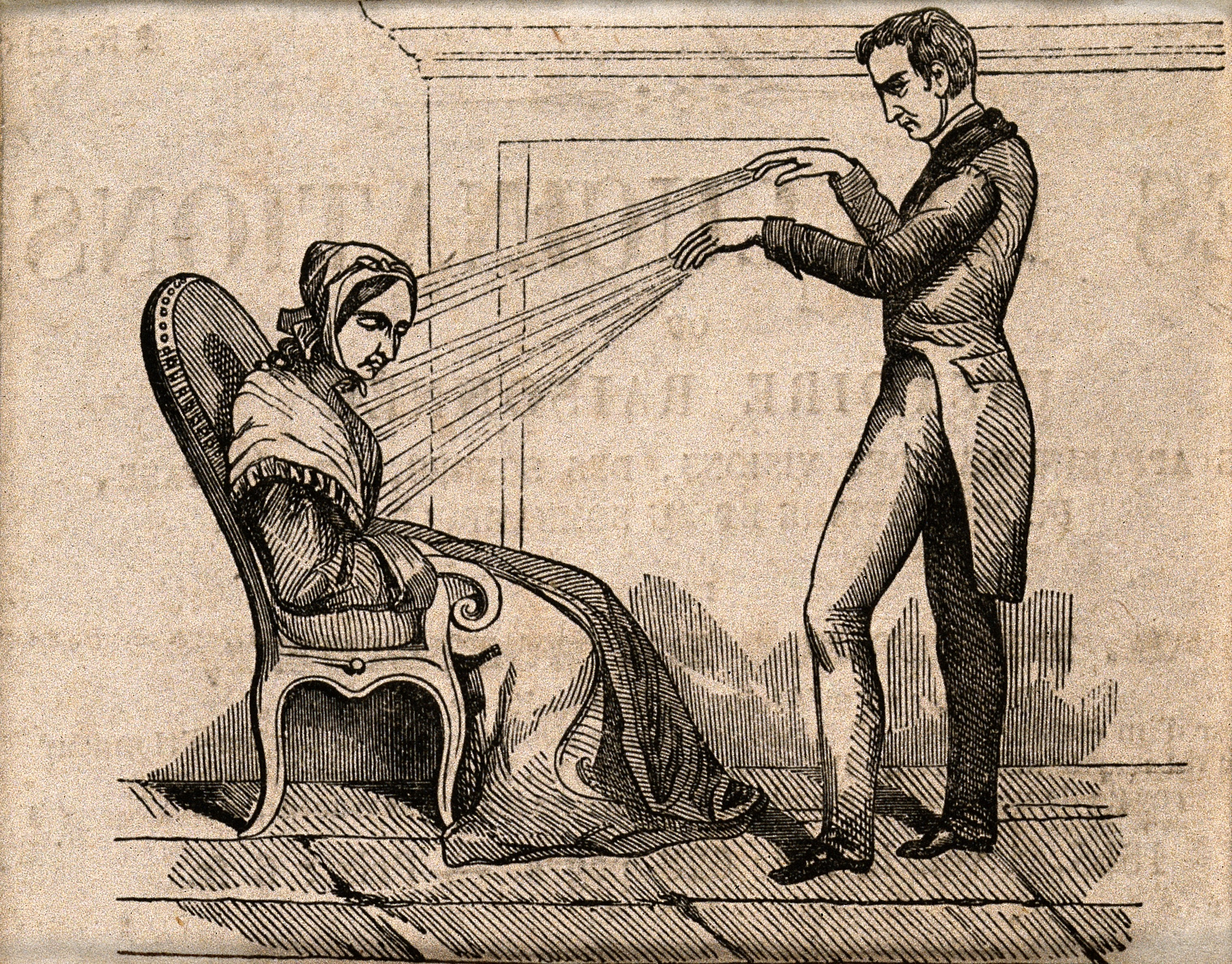 A practitioner of mesmerism using animal magnetism on a woman who responds with convulsions. Wood engraving. Mesmer, Franz Anton 1734-1815. Iconographic Collections